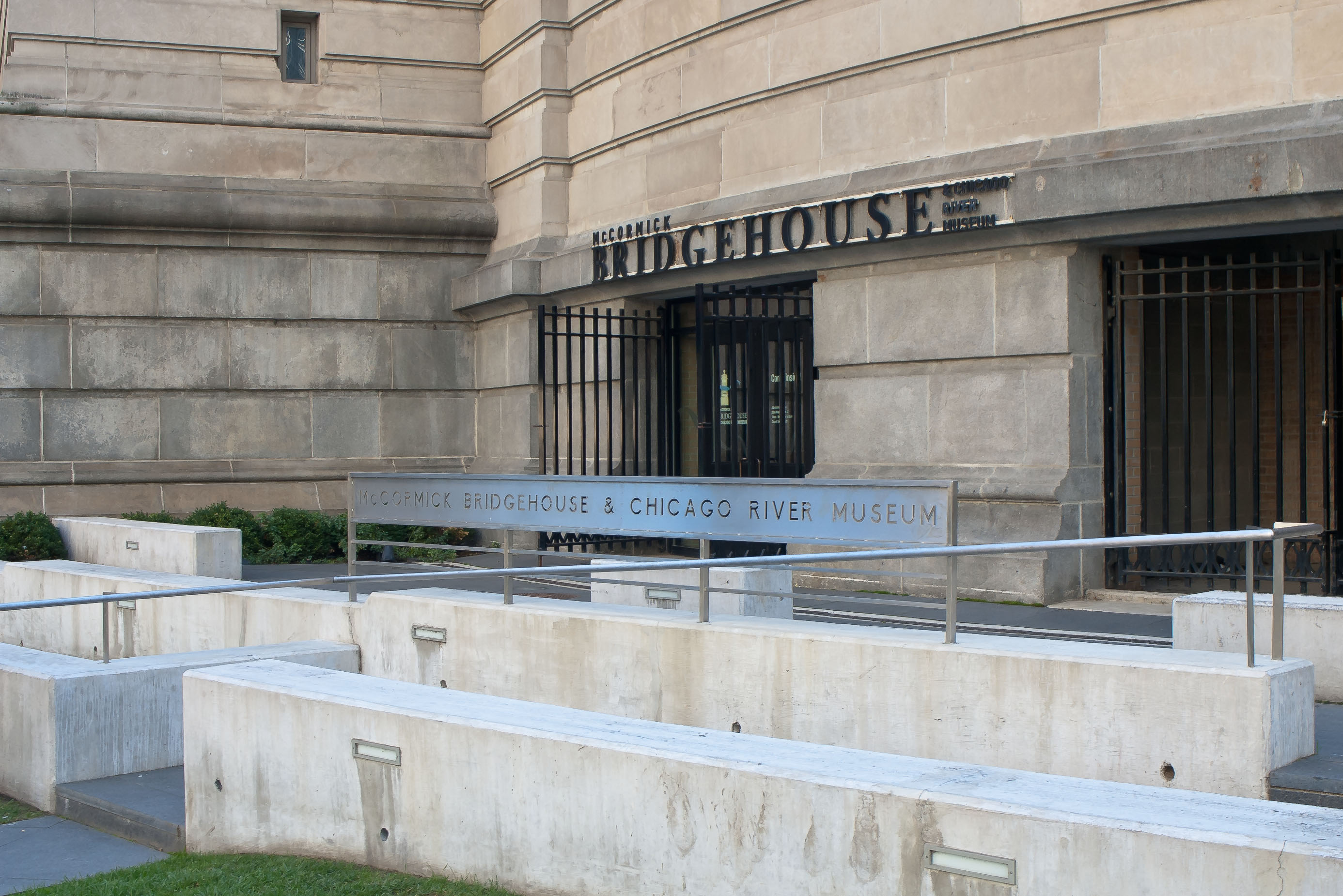 Entrance to the McCormick Bridgehouse and Chicago River Museum, Michigan Avenue Bridge, Chicago, Illinois